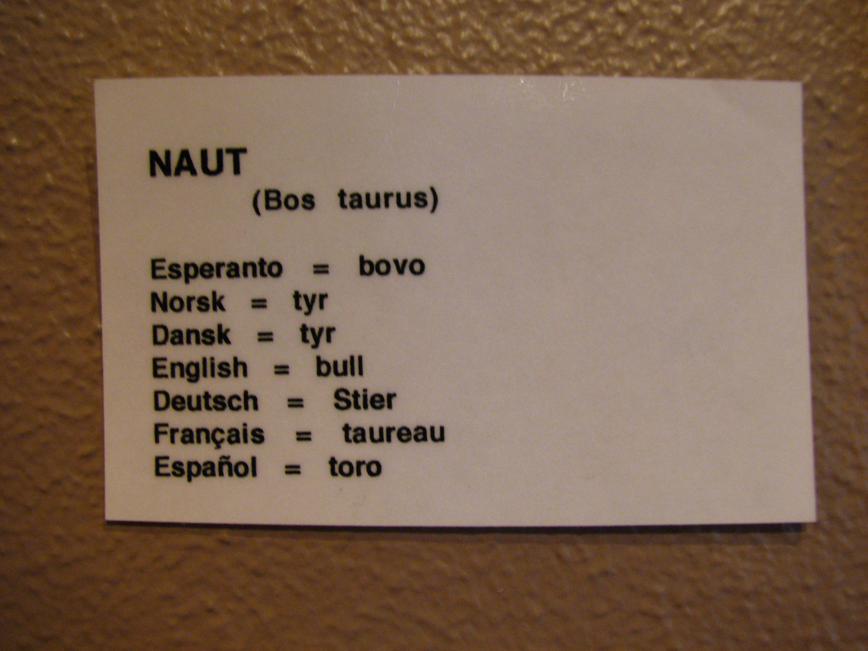 Icelandic Phallological Museum, Húsavík esperanto, road trip, 2008-08 -- Iceland 1st Anniversary Trip